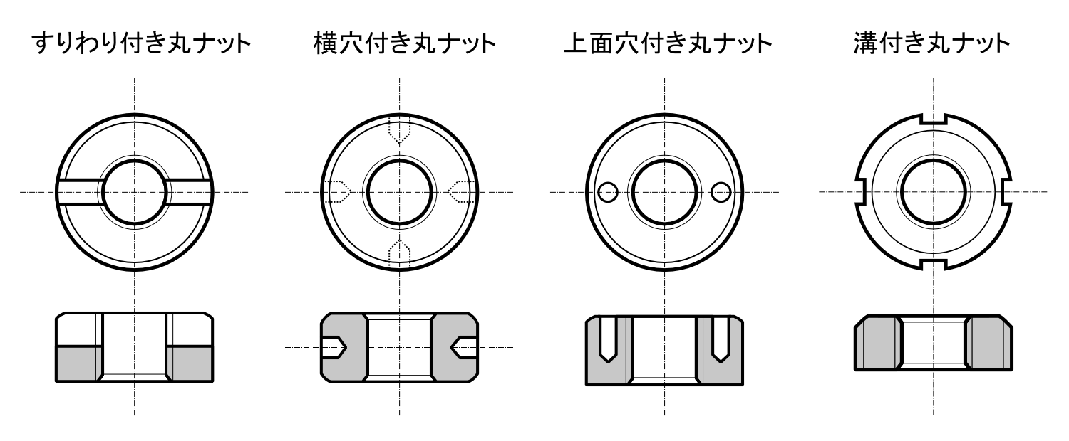 Screw (bolt) 22E-J